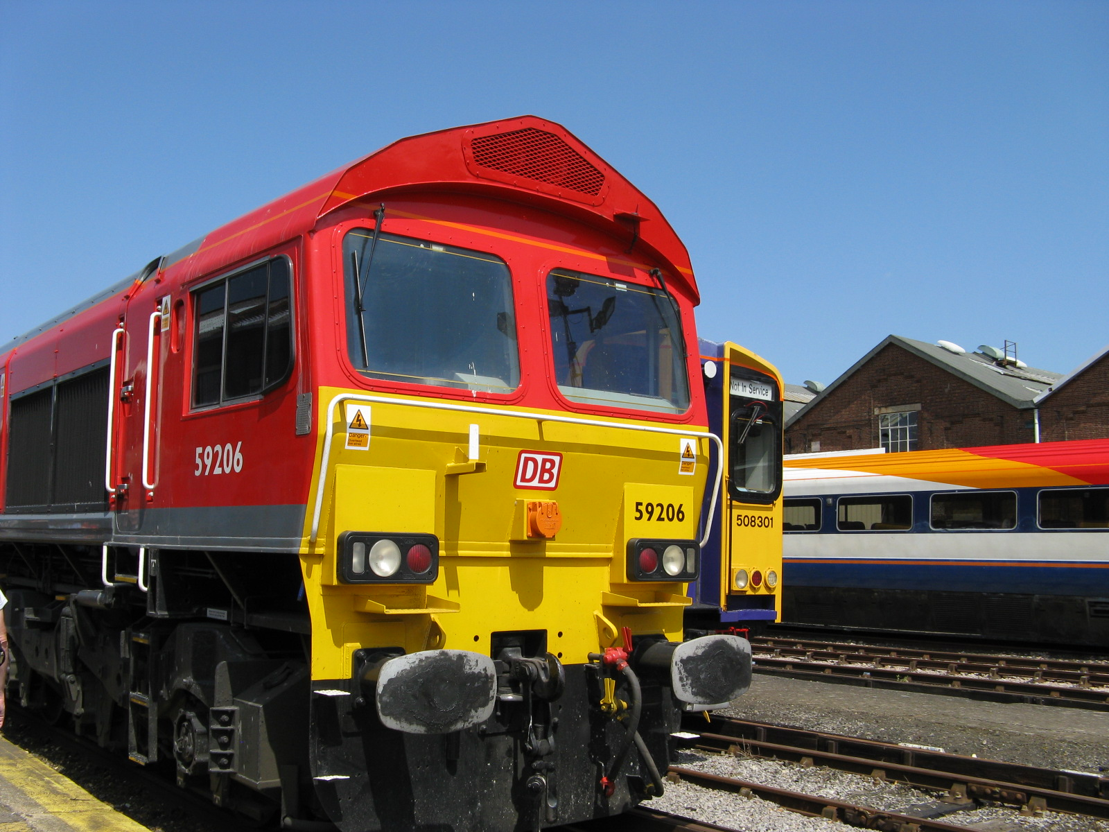 59206 John F. Yeoman Rail Pioneer